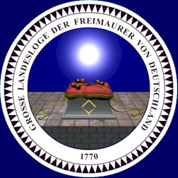 Great Seal of the Große Landesloge der Freimaurer von Deutschland